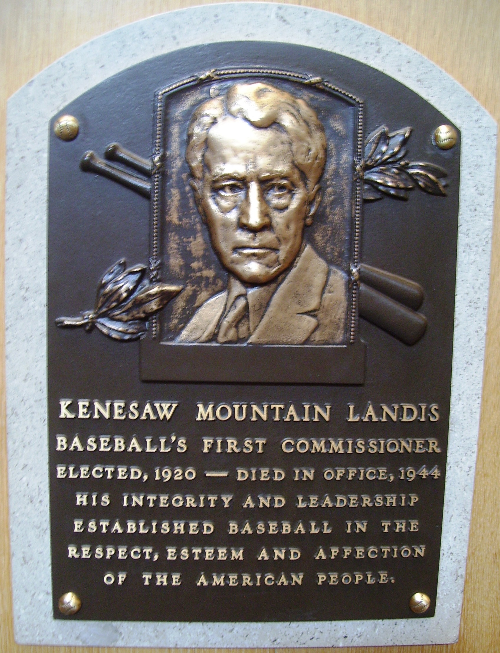 Commissioner Kenesaw Mountain Landis's plaque in the National Baseball Hall of Fame and Museum